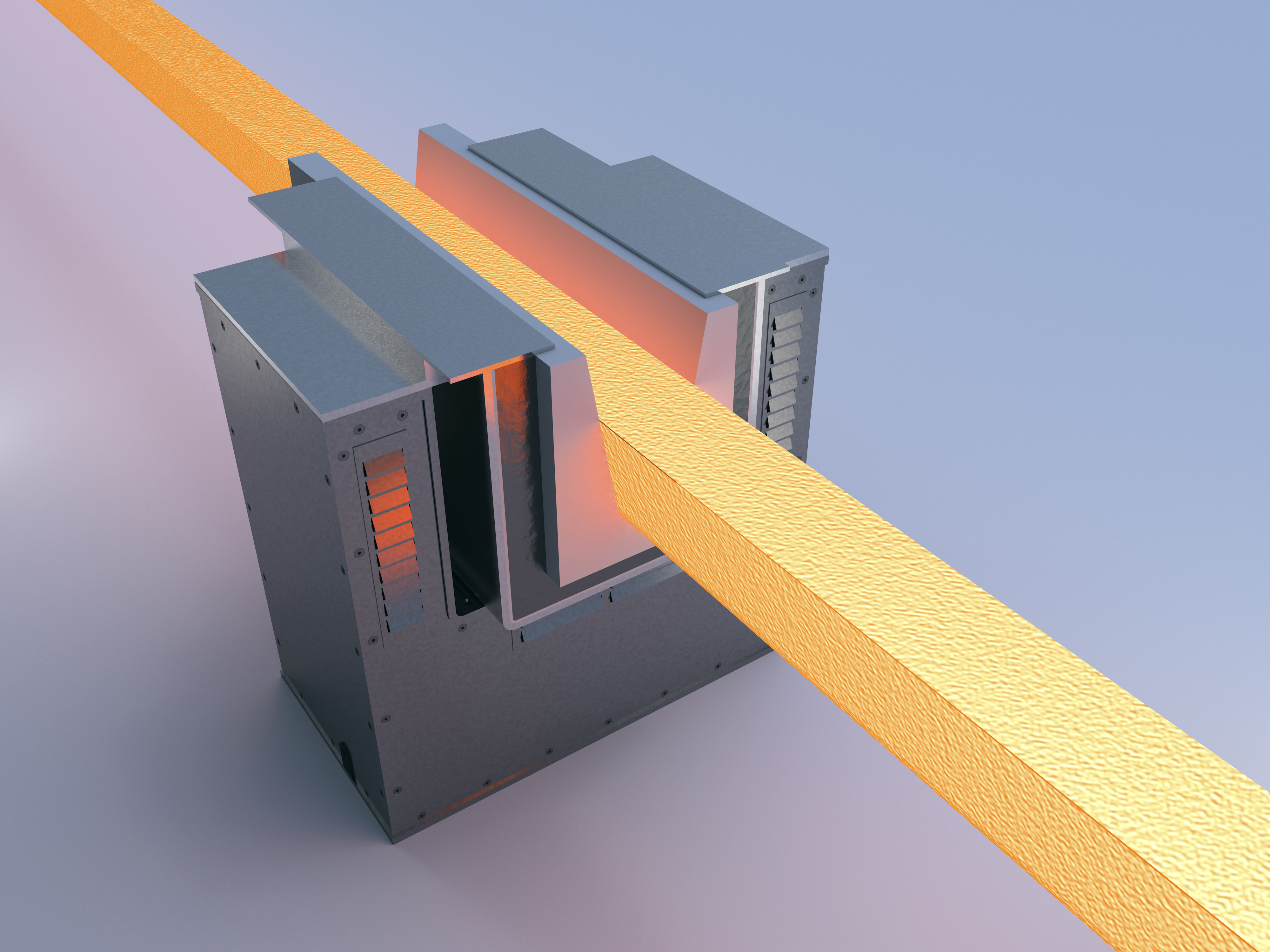 Industrial prototype of the instrument for measuring the mass flow rate of liquid metals in an open channel